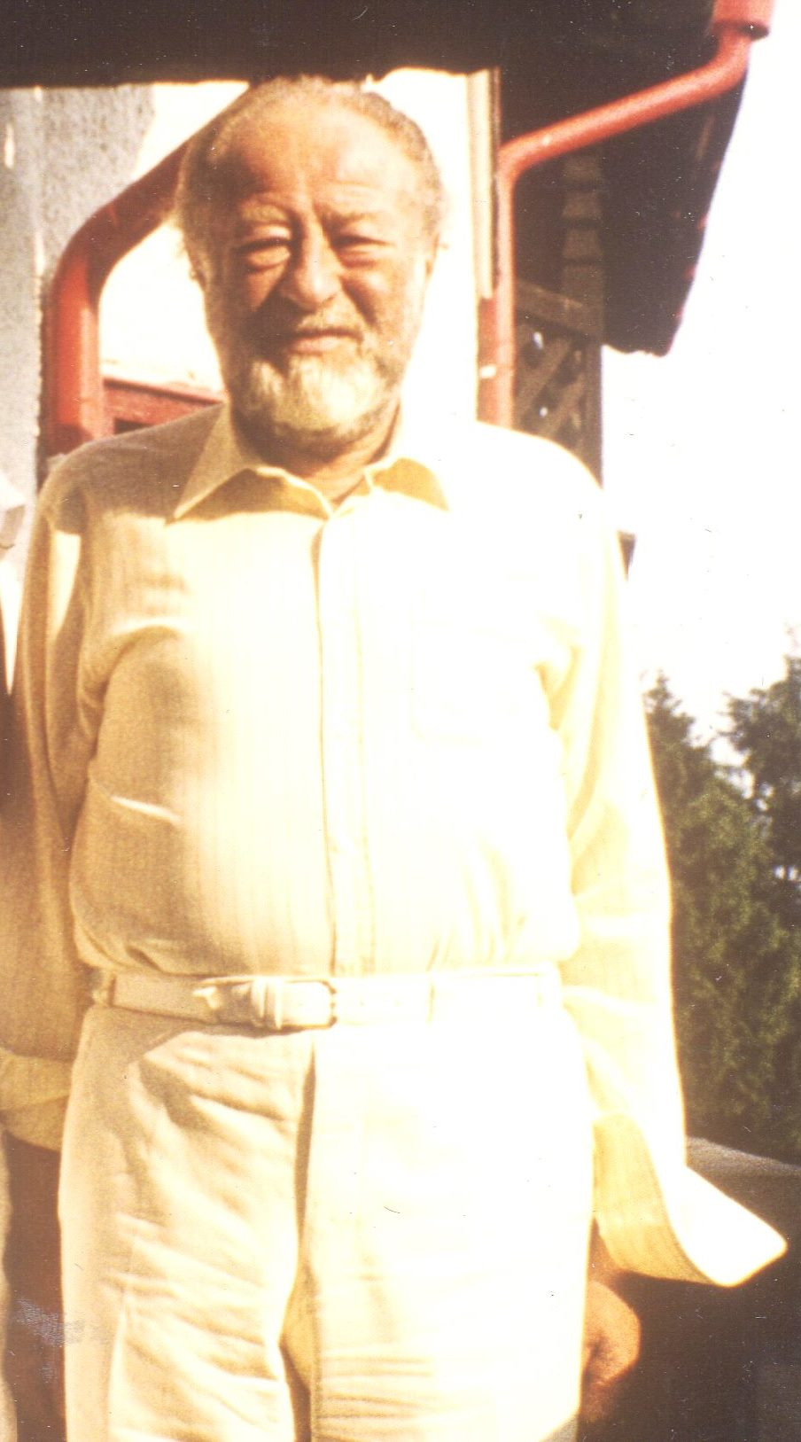 Retired Austrian chancellor Bruno Kreikyat spa hotel Gösing